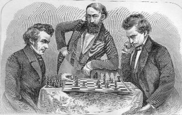 Charles Stanley (left) and John Turner (right) during their match in Washington 1850, - above J. J. Löwenthal